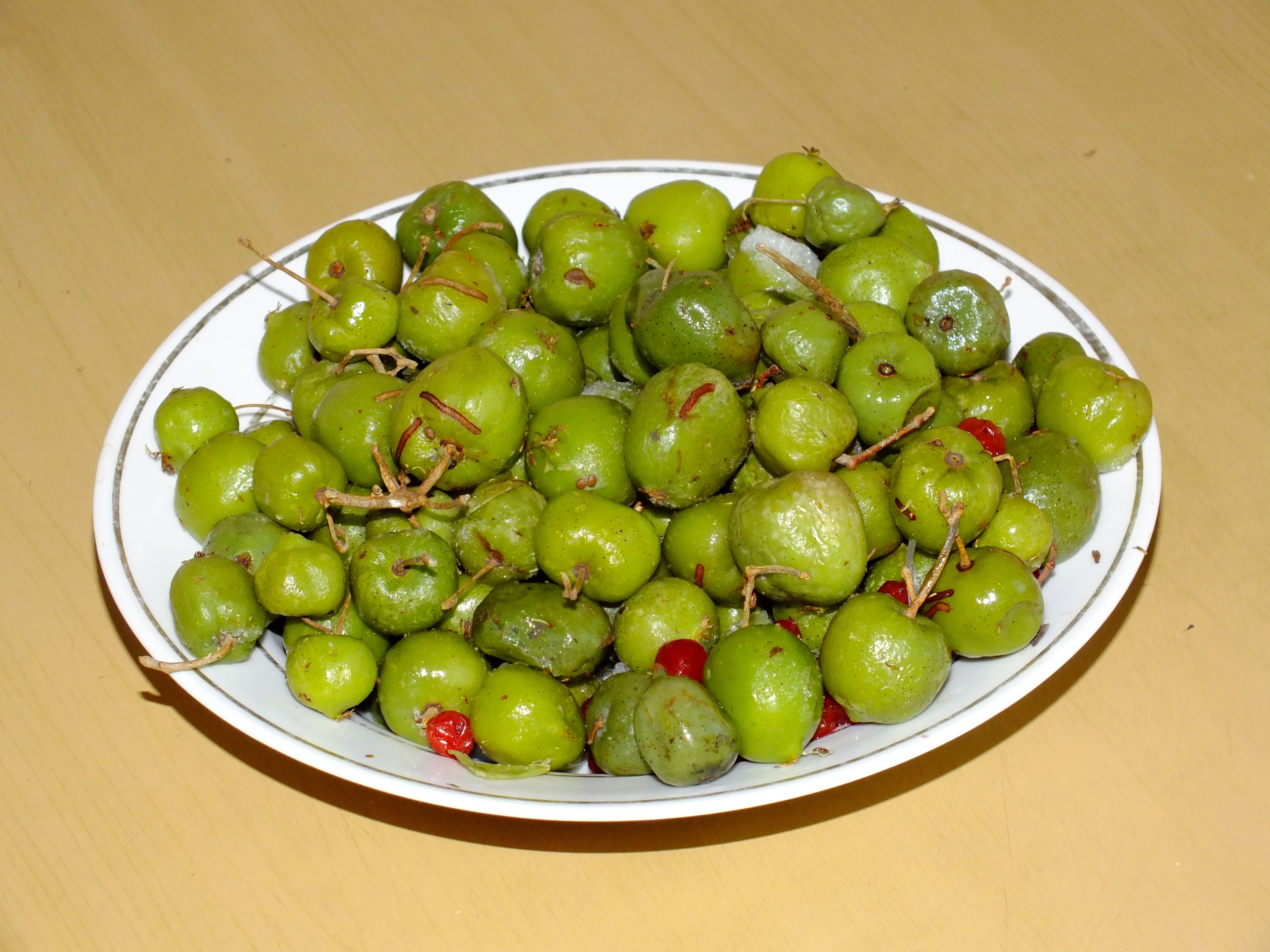 Actinidia kolomikta